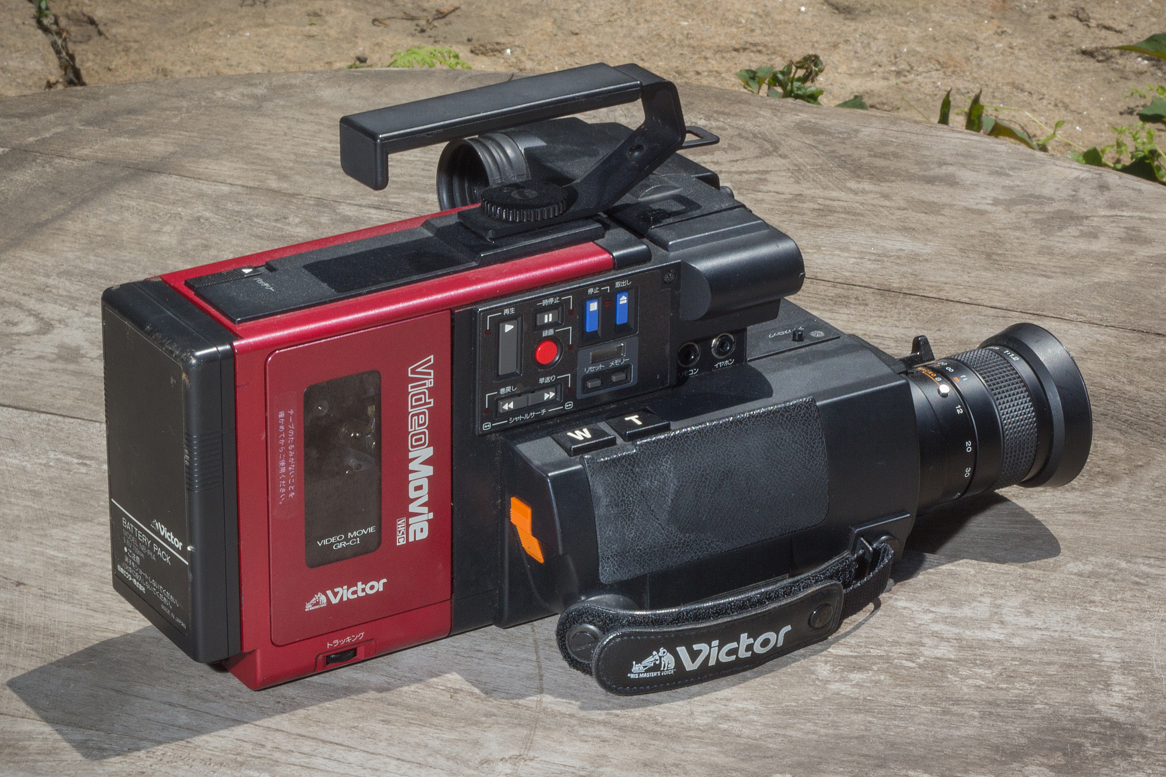 Victor GR-C1 VHS-C camcorder. (Same model as the JVC GR-C1, but using the company's domestic "Victor" brand instead of the "JVC" name used outside Japan).